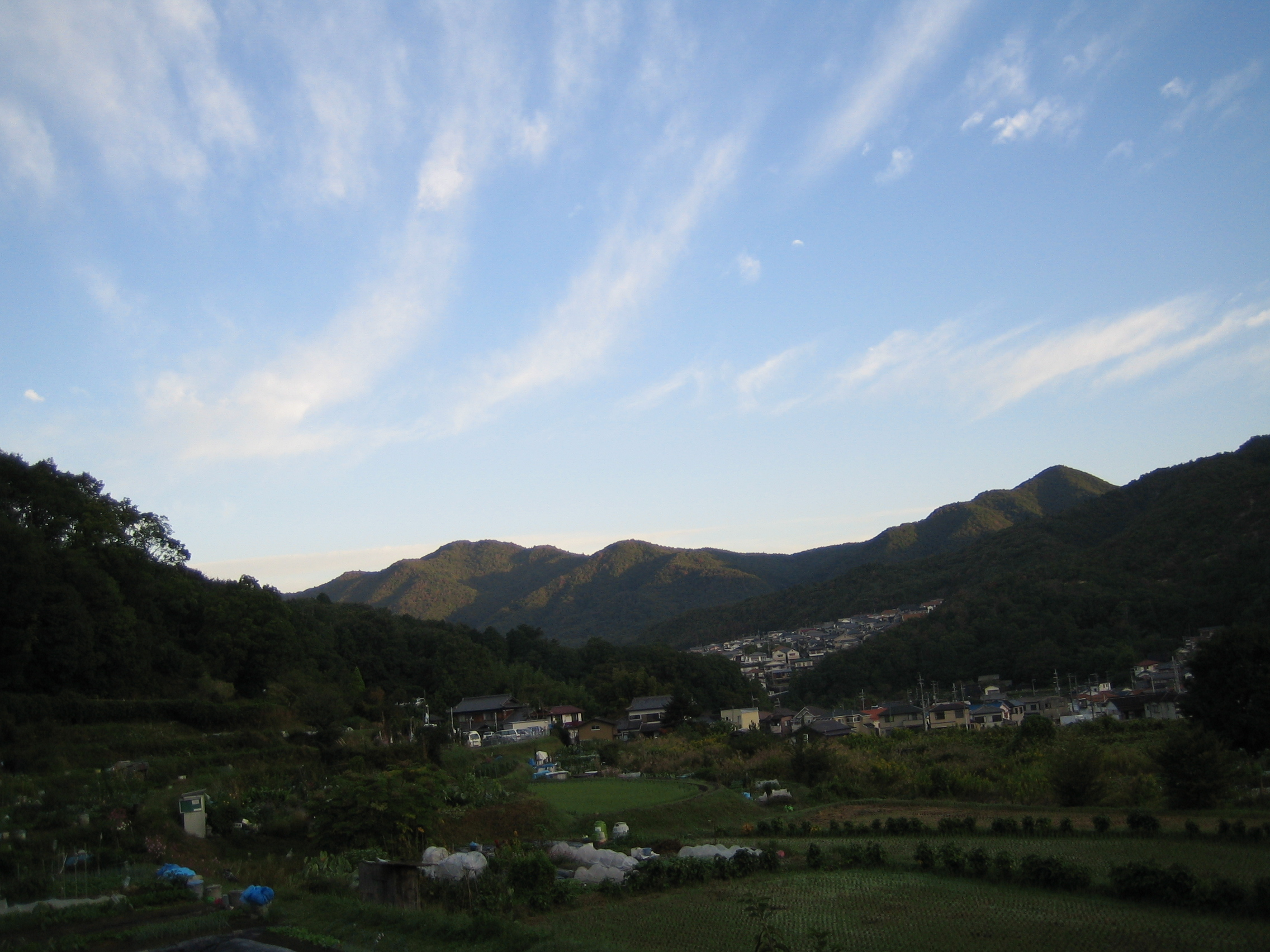 Tanjo Mountains, a part of Rokko Mountains, Hyogo, Honshu, Japan.